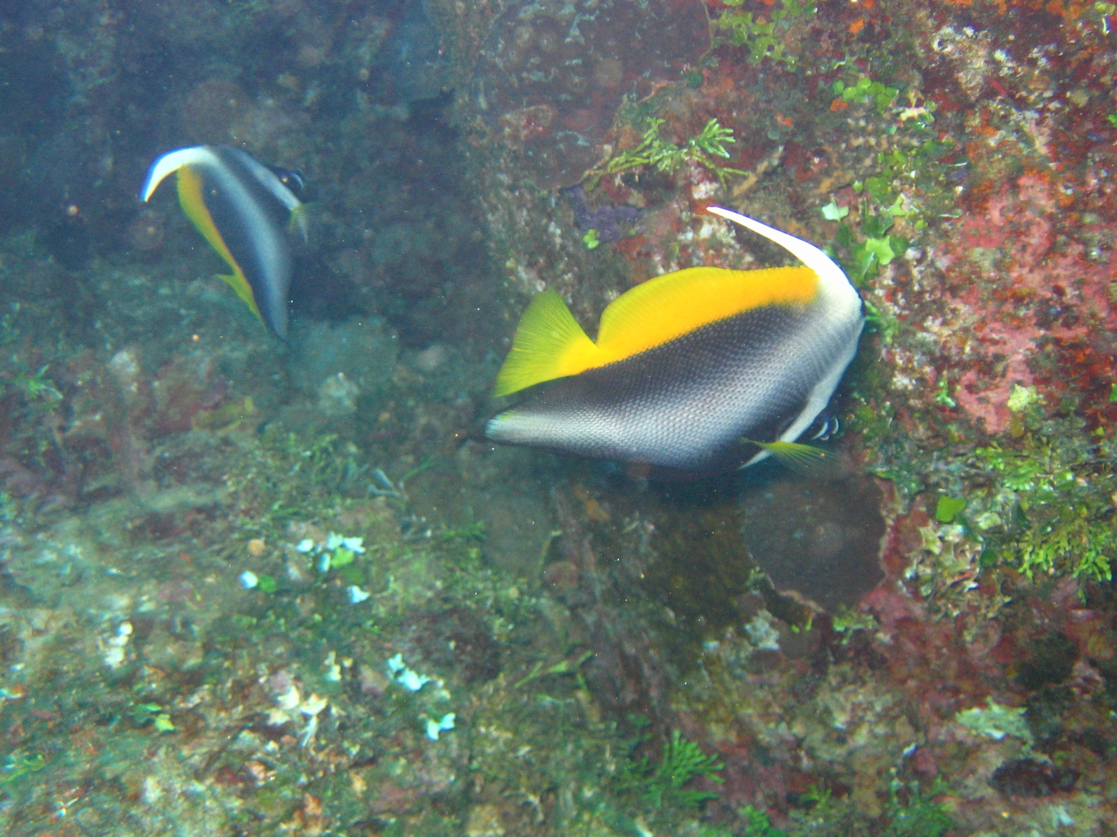 Masked bannerfish (Heniochus monoceros). Coral Kingdom Collection. Federated States of Micronesia, Chuuk.